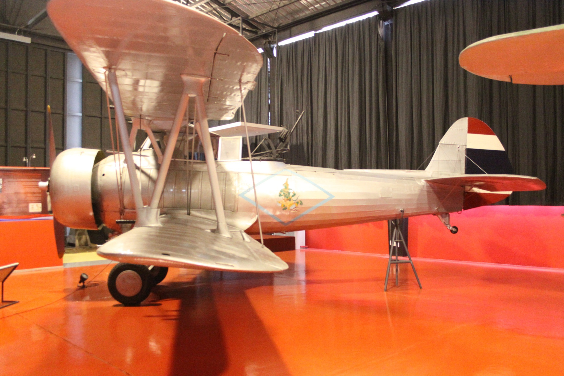 At Don Mueang International Airport